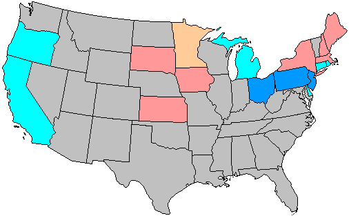 Summary of party change of U.S. house seats in the 1936 House election. Stripes indicate a tie between the gains of two or more parties. Legend: 6+ Democratic seat pickup 3-5 Democratic seat pickup 1-2 Democratic seat pickup 1-2 Republican seat pickup 3-5 Republican seat pickup 6+ Republican seat pickup 1-2 Progressive seat pickup 3-5 Progressive seat pickup 1-2 Farmer-Labor seat pickup 3-5 Farmer-Labor seat pickup Note: years ending in 2 may have inconsistent results due to redistricting.